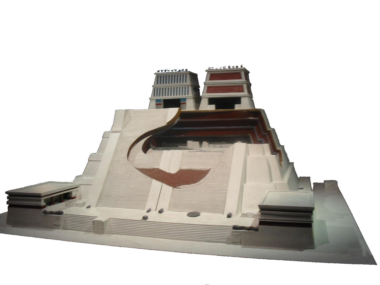 Scale model of the Great Temple (Templo Mayor) of Tenochtitlan showing the various stages as it was enlarged over time.